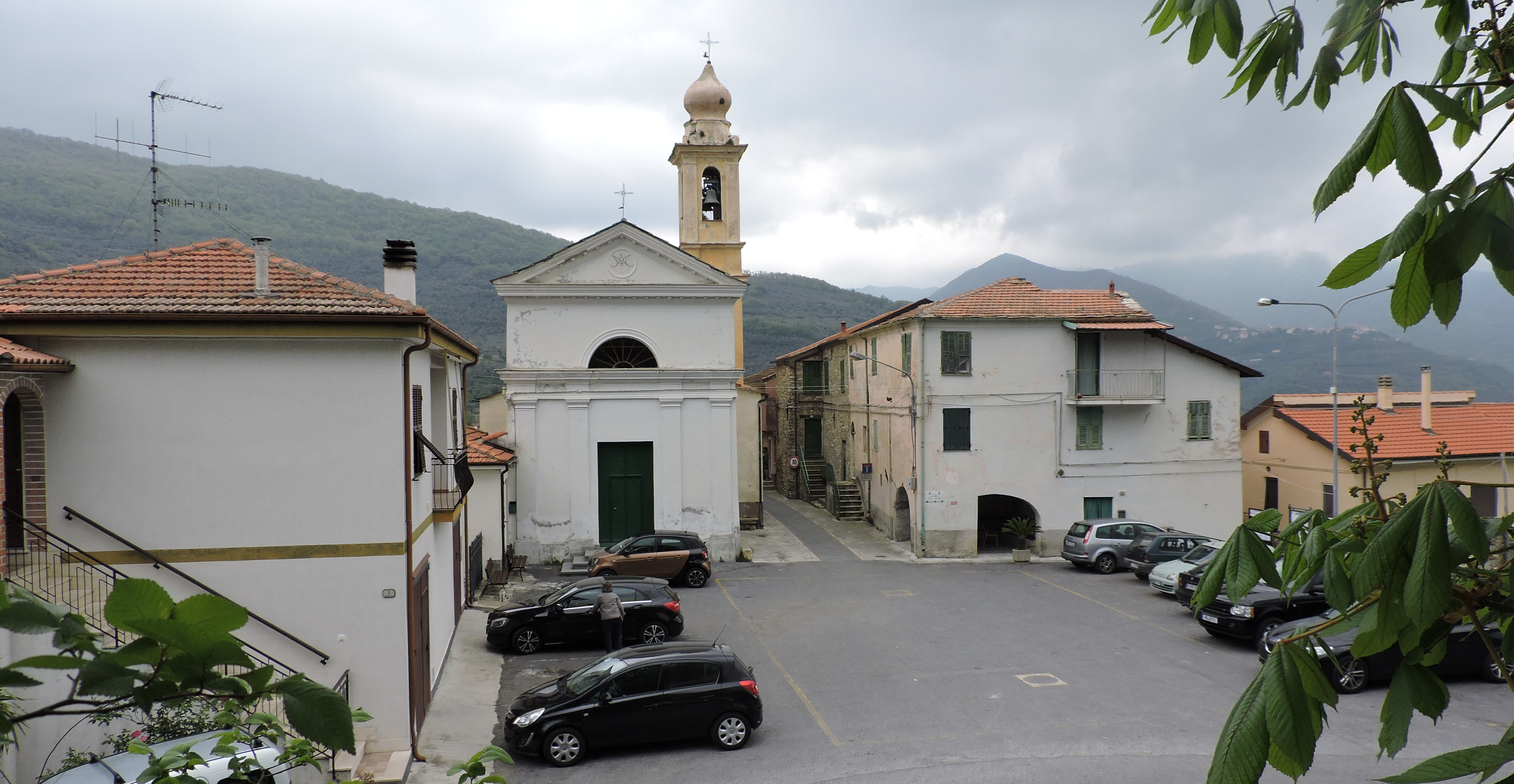 Maro Castello (Borgomaro, IM, Italy), Monte Mucchio di Pietre in the background